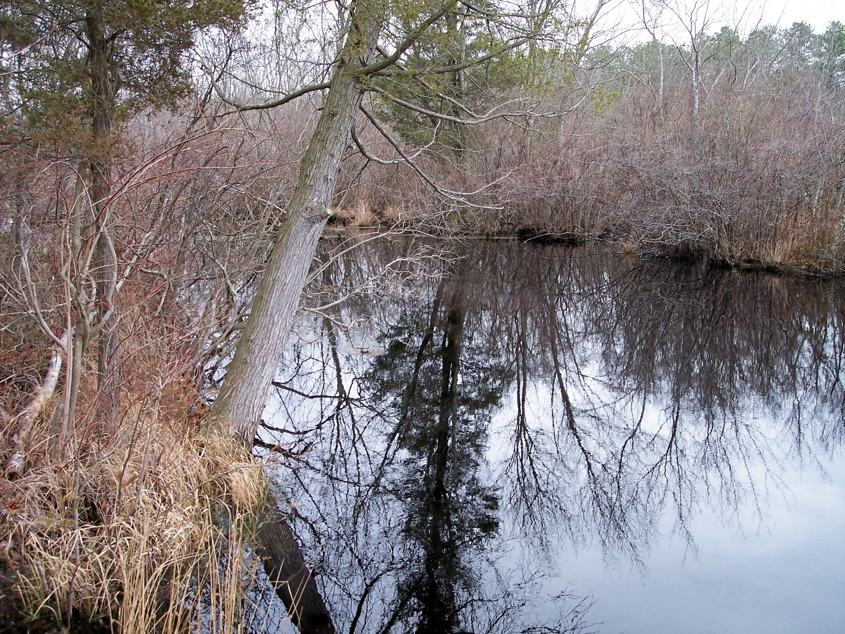 The Tuckahoe River in the Belleplain State Forest, as viewed on the boundary of Estell Manor Township in Atlantic County (left) and Upper Township in Cape May County, in southern New Jersey.